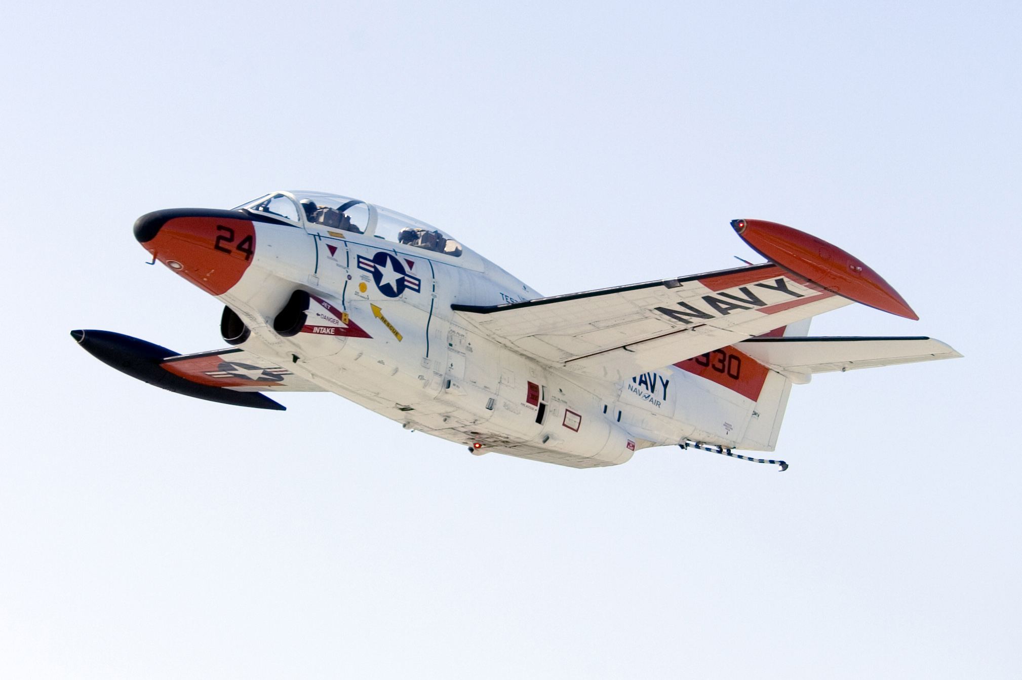 Patuxent River, Md. (Aug. 3, 2005) - A T-2C Buckeye, assigned to the U.S. Naval Test Pilot School, takes off for a training flight from Naval Air Station Patuxent River, Md. The United States Naval Test Pilot School (USNTPS) provides instruction to experienced pilots, flight officers, and engineers in the processes and techniques of aircraft and systems test and evaluation. The school investigates and develops new flight test techniques, publishes manuals for use of the aviation test community for standardization of flight test techniques and project reporting, and conducts special projects. USNTPS operates approximately 50 aircraft of 13 types.